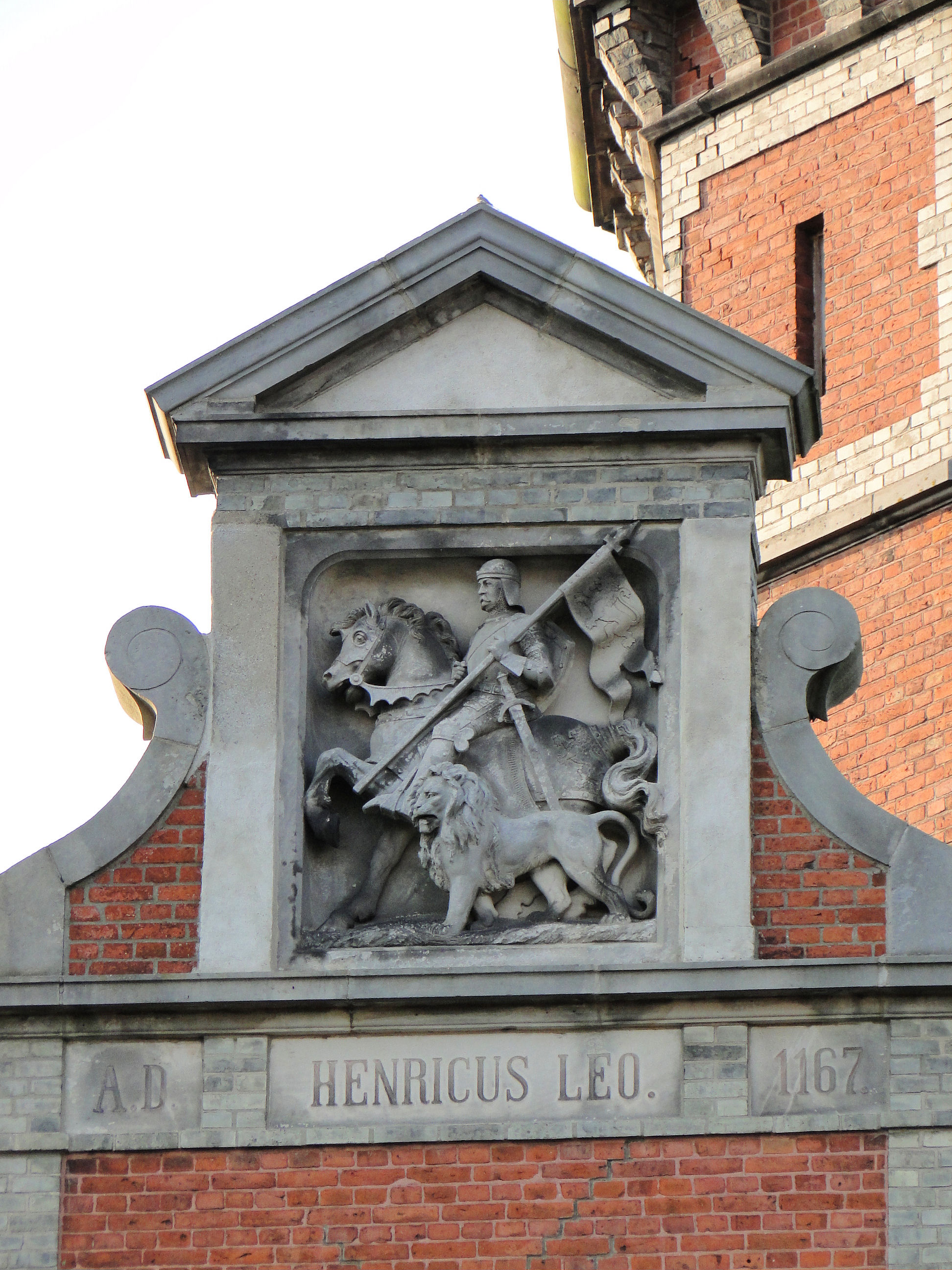 Relief Henry the Lion at manor house in Bernstorf, district Nordwestmecklenburg, Mecklenburg-Vorpommern, Germany